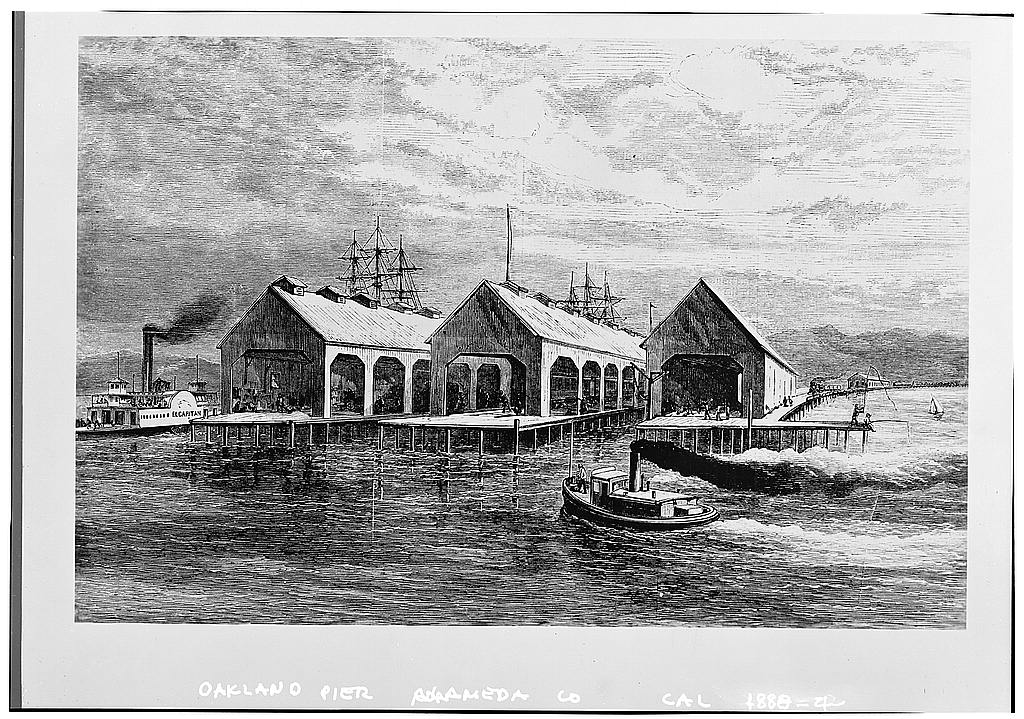 Oakland Long Wharf, 1878, prior to it being expanded into the Oakland Mole and Pier.